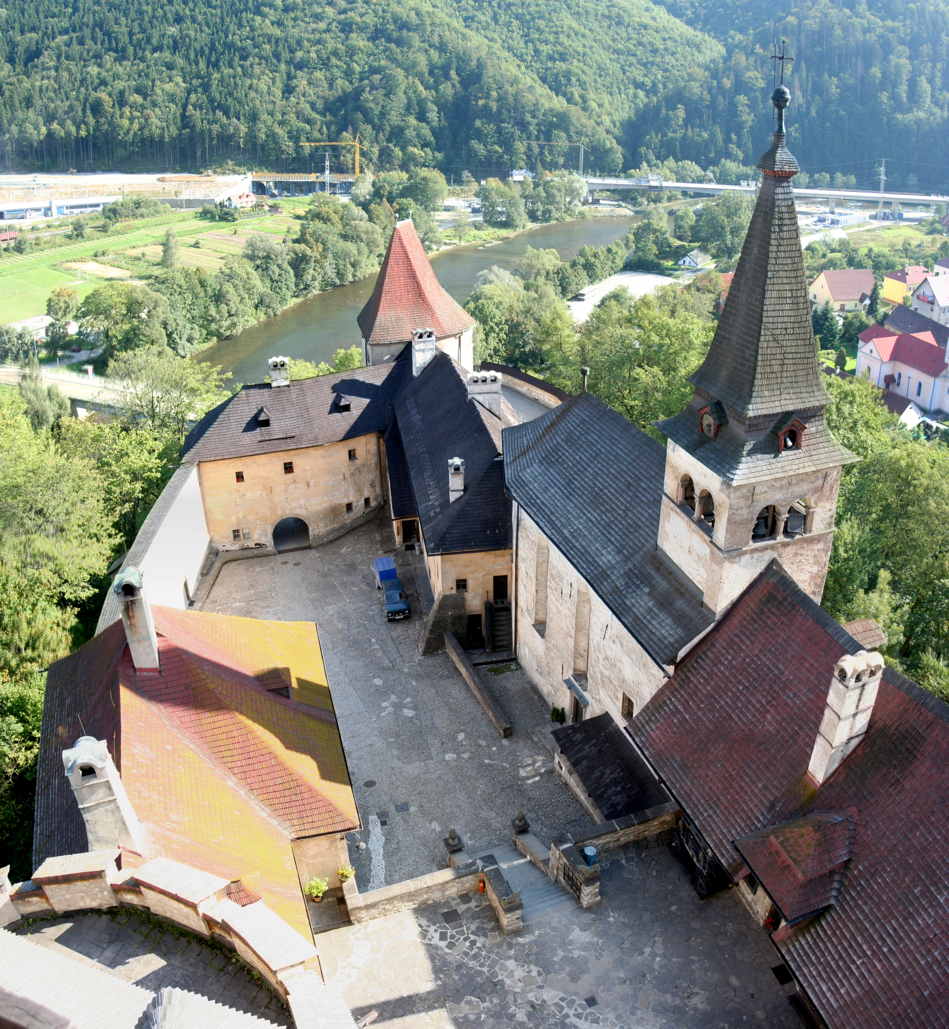 Orava castle, Slovakia.